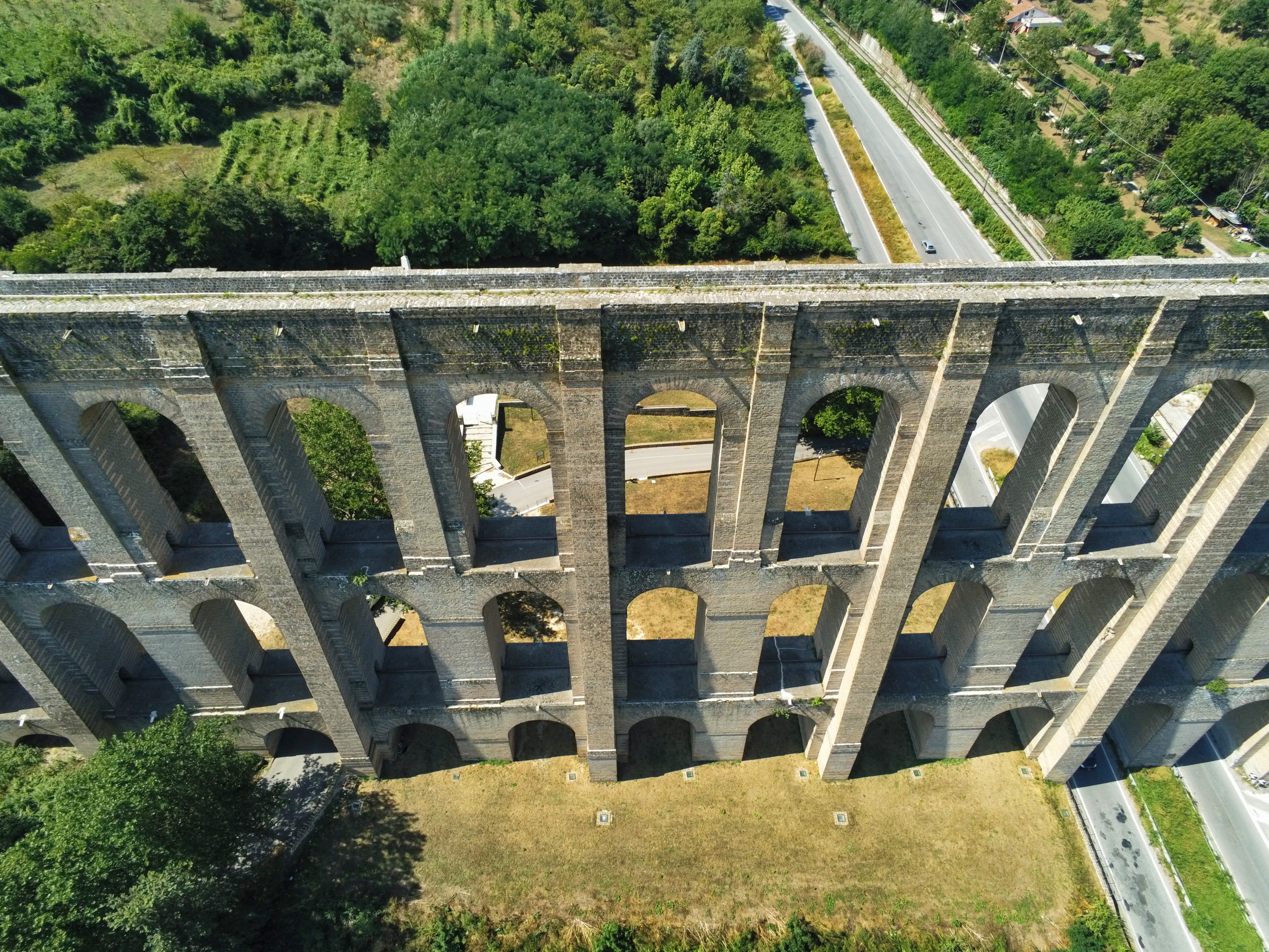 Bird's eye view of the Caroline Aqueduct (Aqueduct of Vanvitelli), shoot with a Parrot Anafi drone on July 31st 2019.